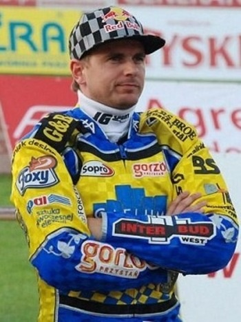 Hans Andersen in season 2011